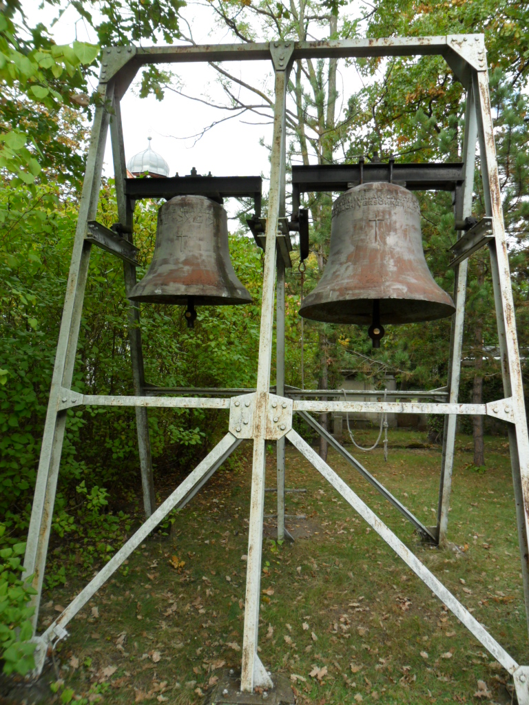 Bells on the former Jewish cemetery.